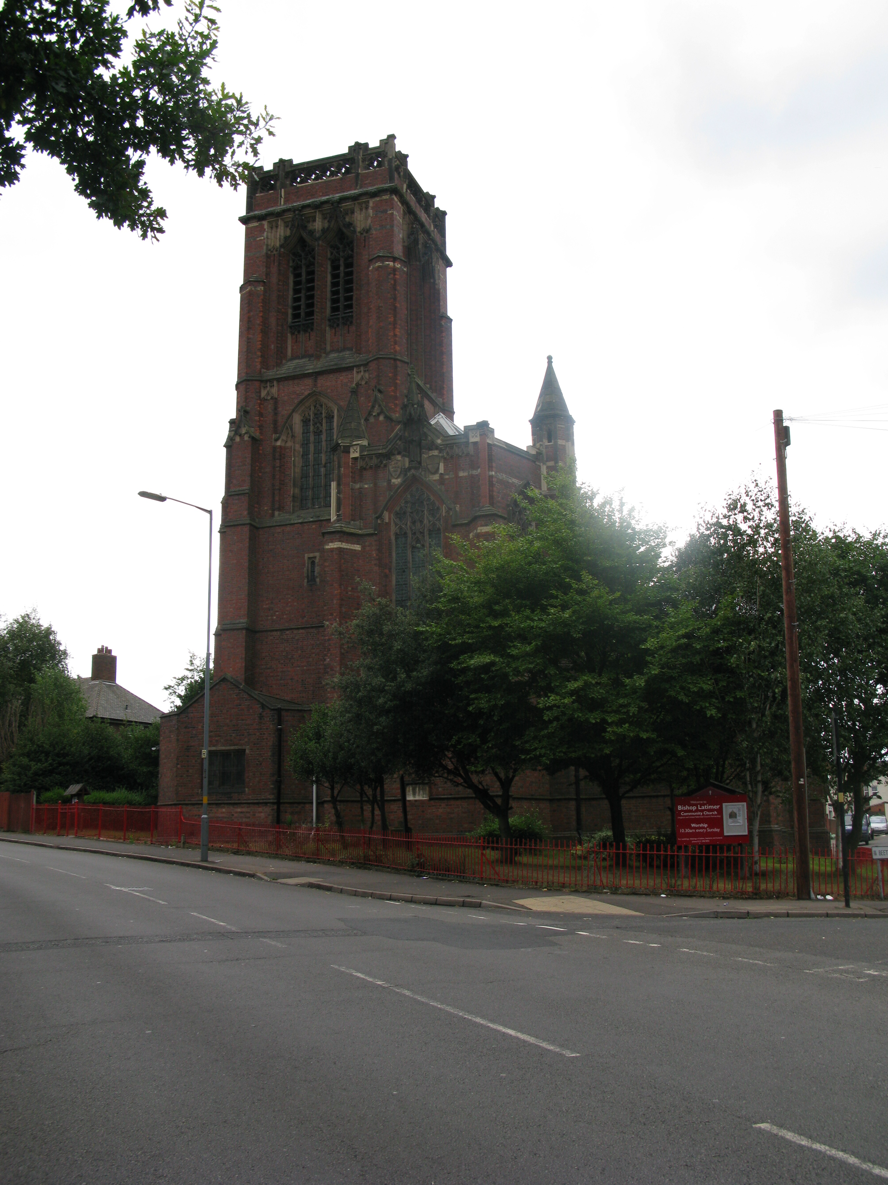 Bishop Latimer Memorial Church, Handsworth New Road, Winson Green, Birmingham, seen from the northeast